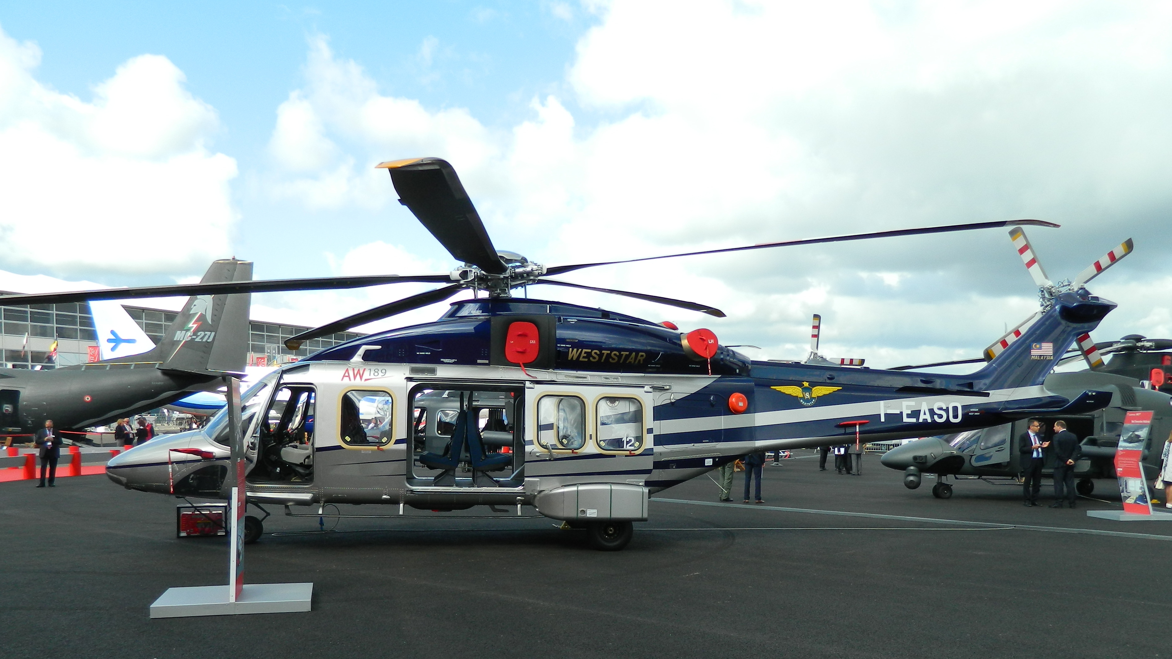 AgustaWestland AW189 registered in Italy as I-EASO on display at the 2014 Farnborough Airshow before delivery to Weststar Aviation of Malaysia